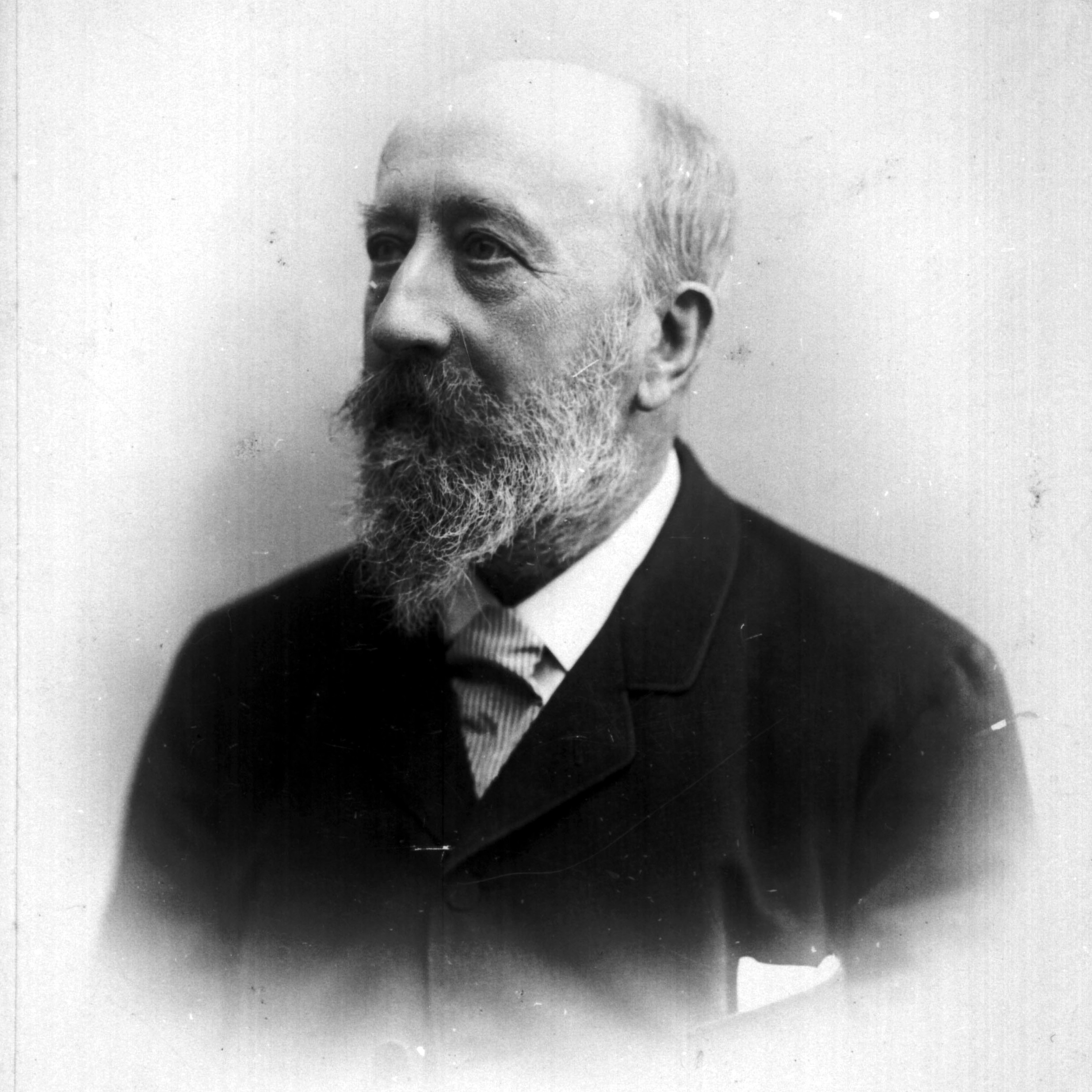 Artist: H. J. Barby Date/place: 07.08 1898 Subject: Benjamin Feddersen Medium: photographic positive, B&W Notes: Danish author. Written on the photo: "Til min gamle Ven Edvard Grieg (uleselig) Benj. Feddersen 7 Au 98" (To my old friend Edvard Grieg (unreadable) Benj. Feddersen Au 98. Persistent URL: [#//bergenbibliotek.no/digitale-samlinger//engelsk/-intro-eng” Original belongs to the Edvard Grieg Archives at Bergen Public Library] Original reference: EGM0303